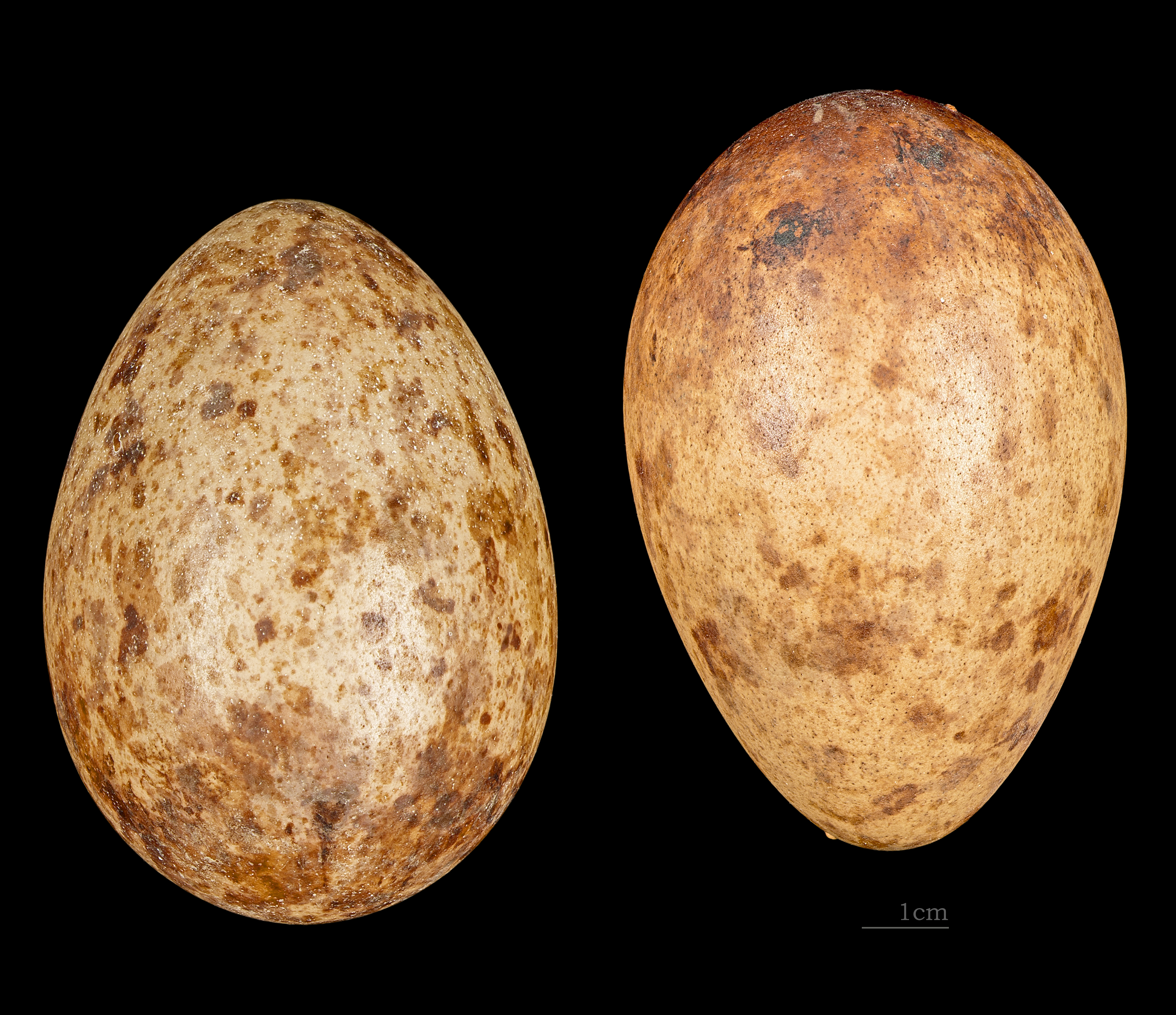 Egg of Blue Crane Collection of Jacques Perrin de Brichambaut.